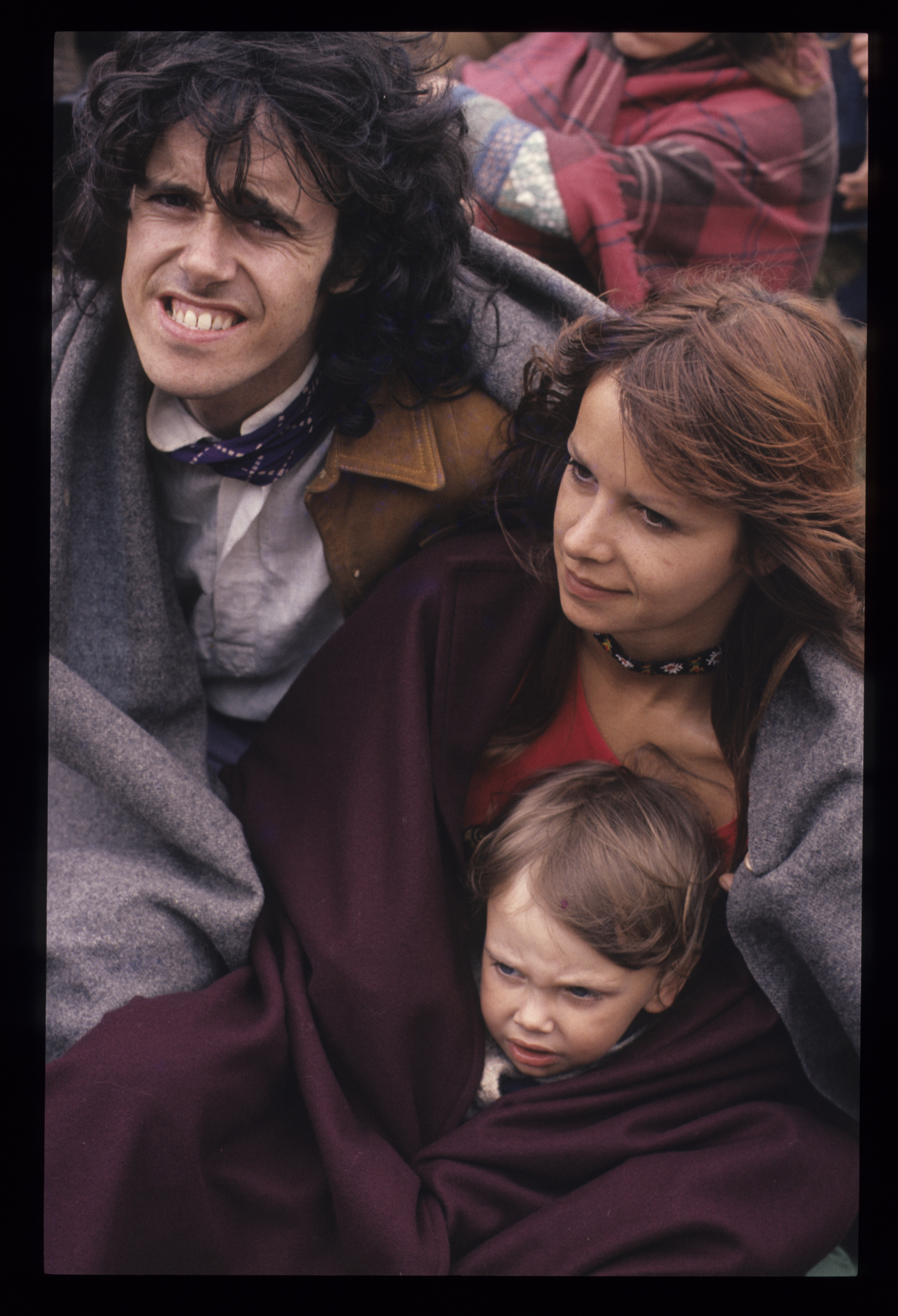 DONOVAN+Family 1970 BathFestival